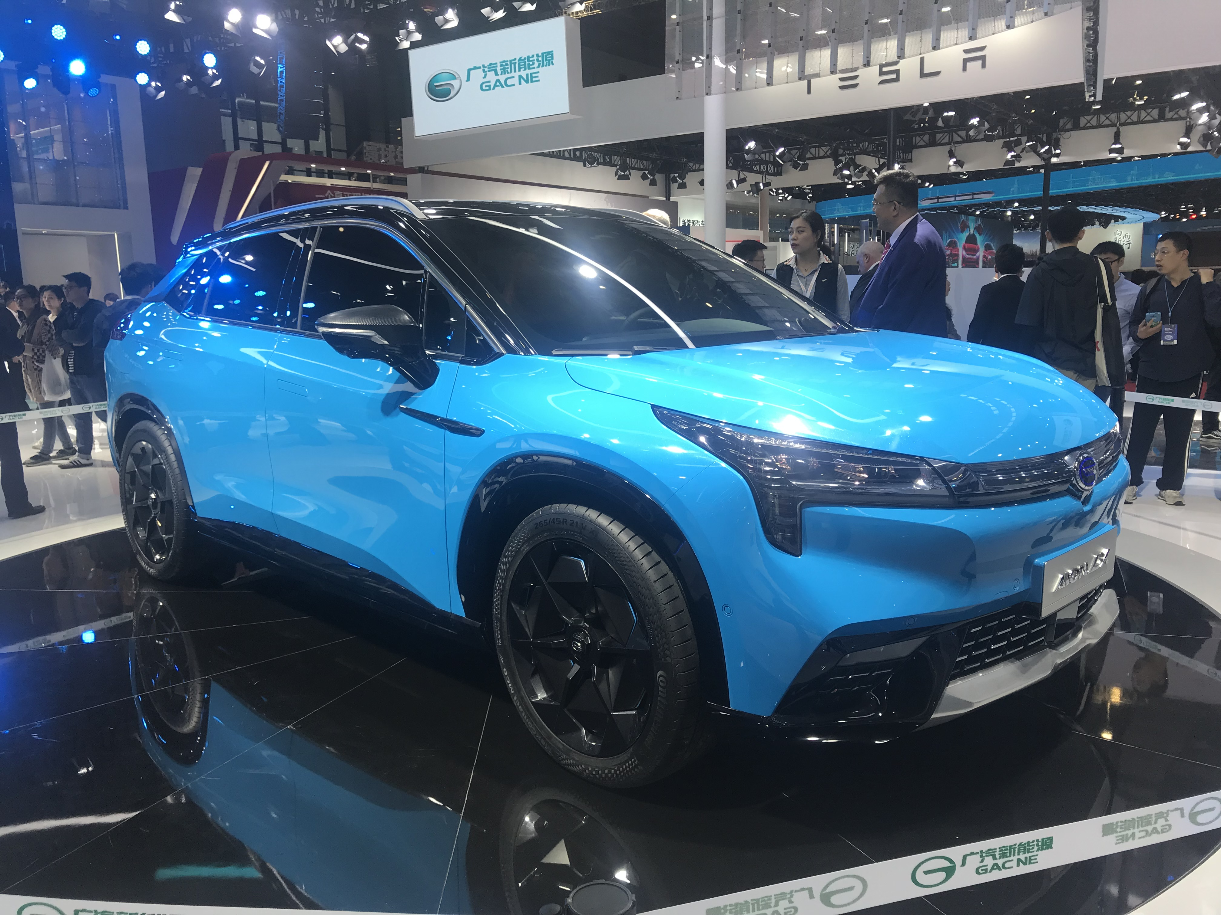 GAC Aion LX